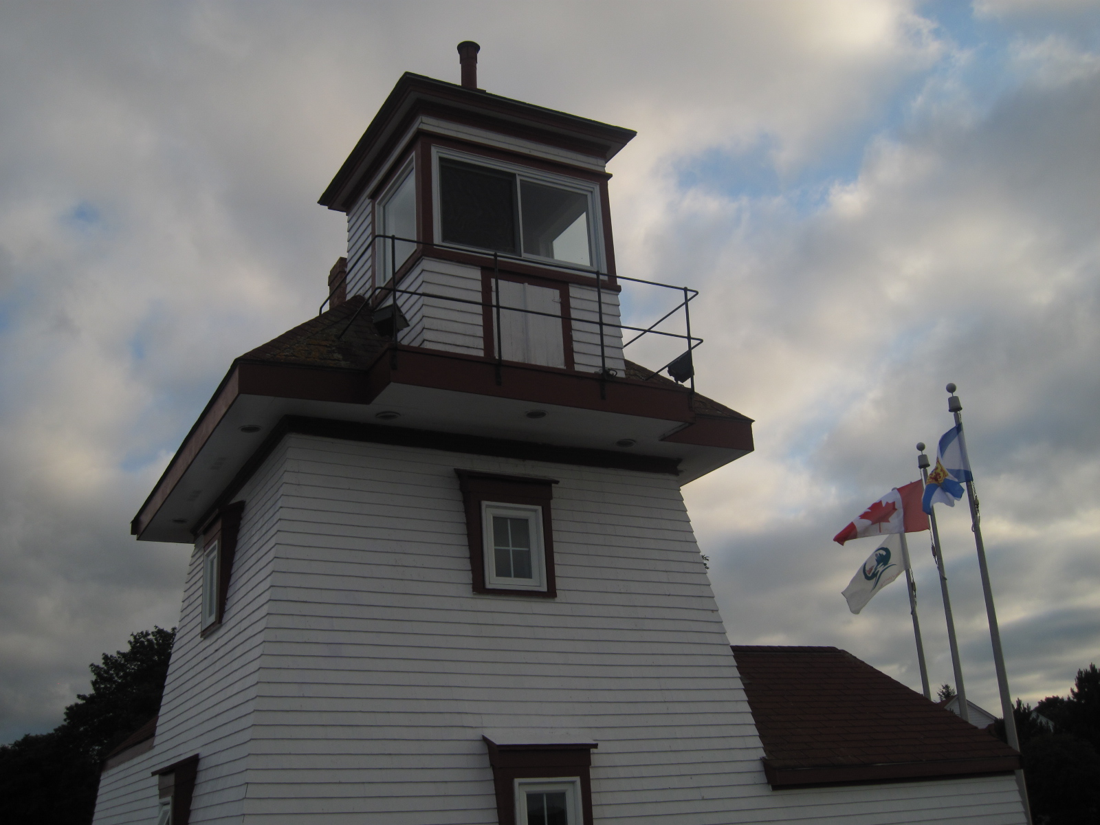 Fort Point Lighthouse